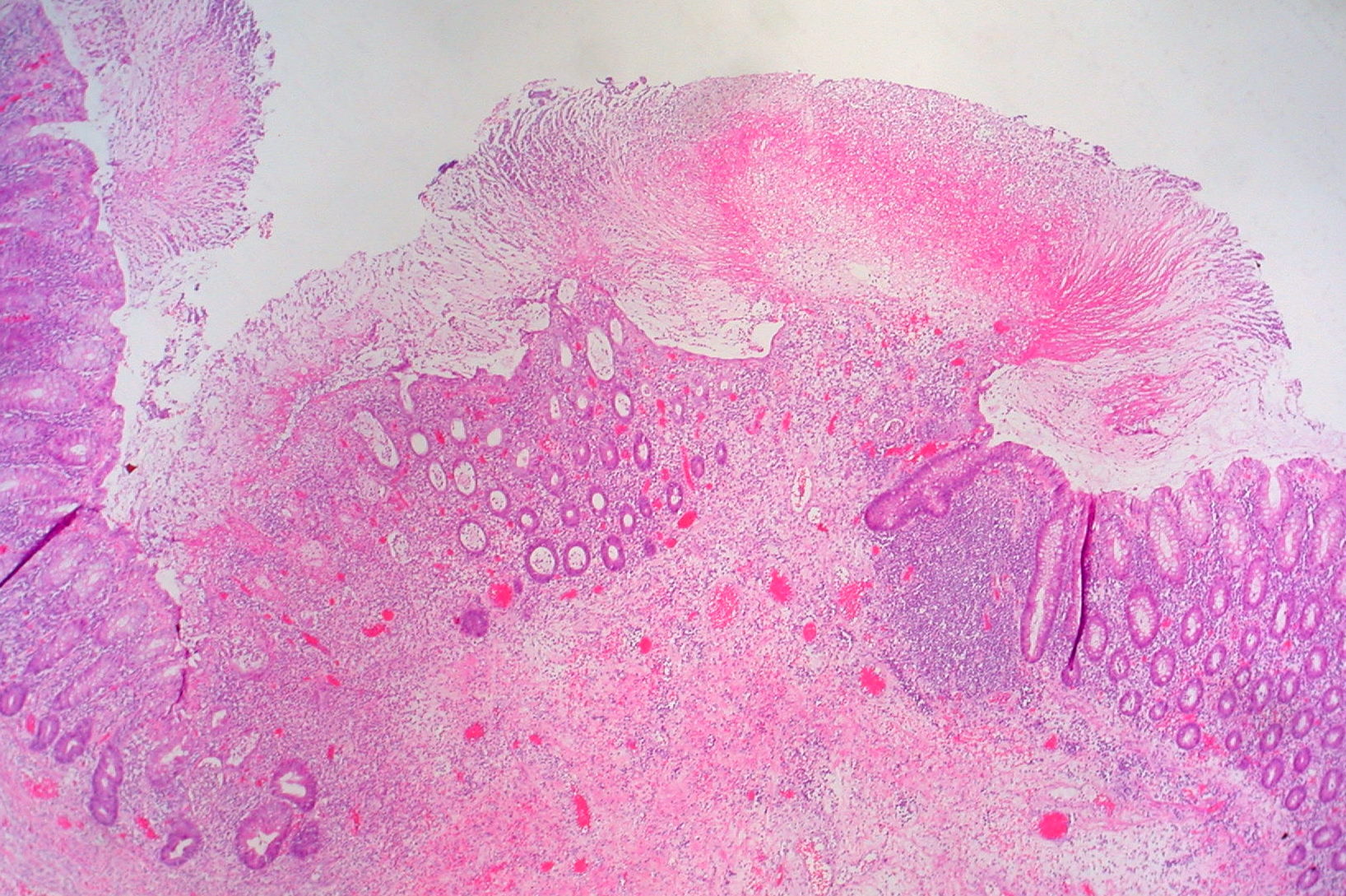 The classic "volcano" pattern of fibrinopurulent exudate erupting from the superficial mucosa and layering out over the surface. Pathological and histological images courtesy of Ed Uthman at flickr.